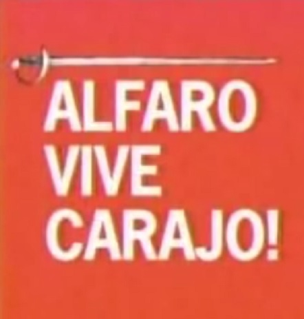 Logo of an extinct Ecuadorian guerrilla organization.